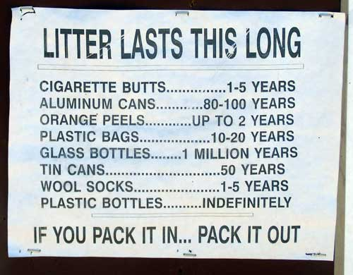 Sign posted by the U.S. Forest Service at the Reyes Creek campground in the Los Padres National Forest, near Scheideck, giving the estimated life of litter. Photo by George Garrigues, November 2008